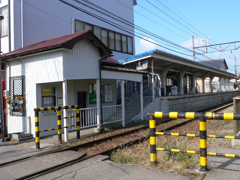 Waridashi St., Hokuriku Railroad, Ishikawa, Japan.